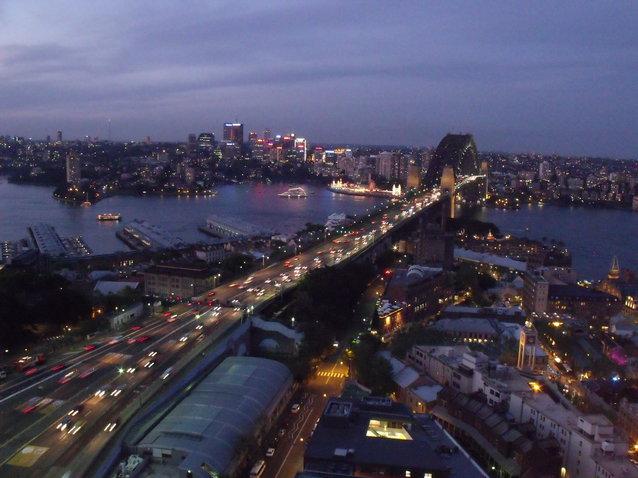 All the lights have come on in the failing light of the early evening in Sydney.